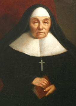 Detail of Marie-Rosalie Cadron-Jetté's face, extracted from a portrait painted circa 1860